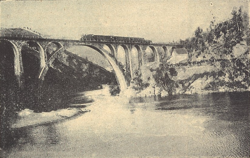 Santiago or Poço de Santiago Railway Bridge, on the former Vouga Railway, in Portugal. This image was published on the Gazeta dos Caminhos de Ferro magazine no. 1066, of the 16th May 1932, and scanned by the Hemeroteca Municipal de Lisboa.